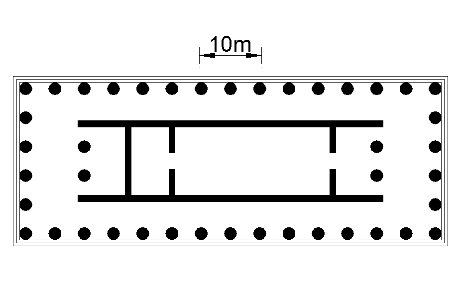 Plan of temple E in Selinunte (the Temple of Hera).